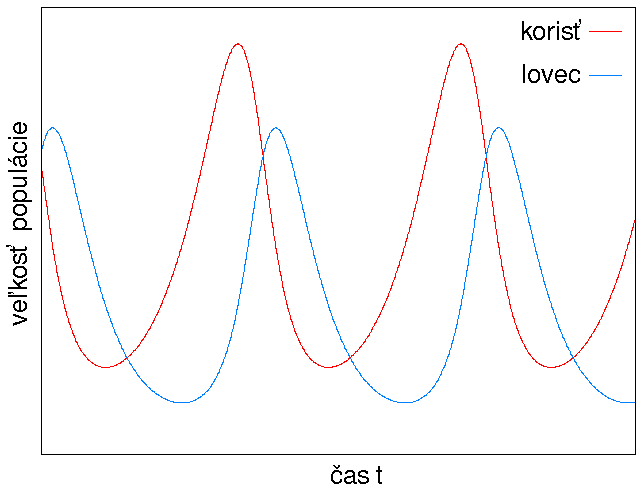 dynamics of a prey-predator system, axis labels and legend in slovak